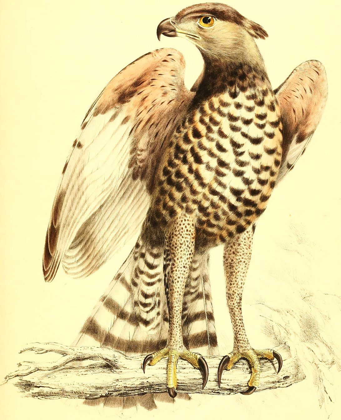 « Aquila coronata » = Stephanoaetus coronatus (Crowned Eagle) - young female